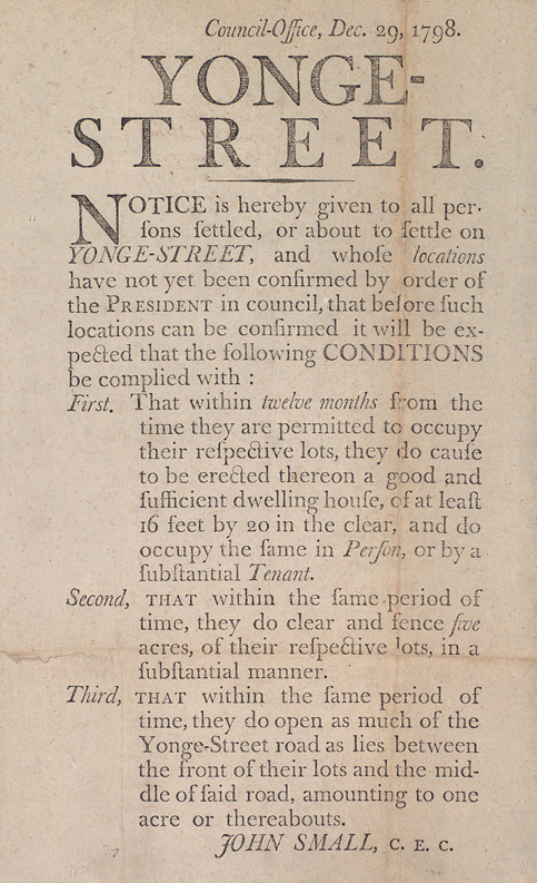 Government notice describing the duties of those granted land on Yonge Street.